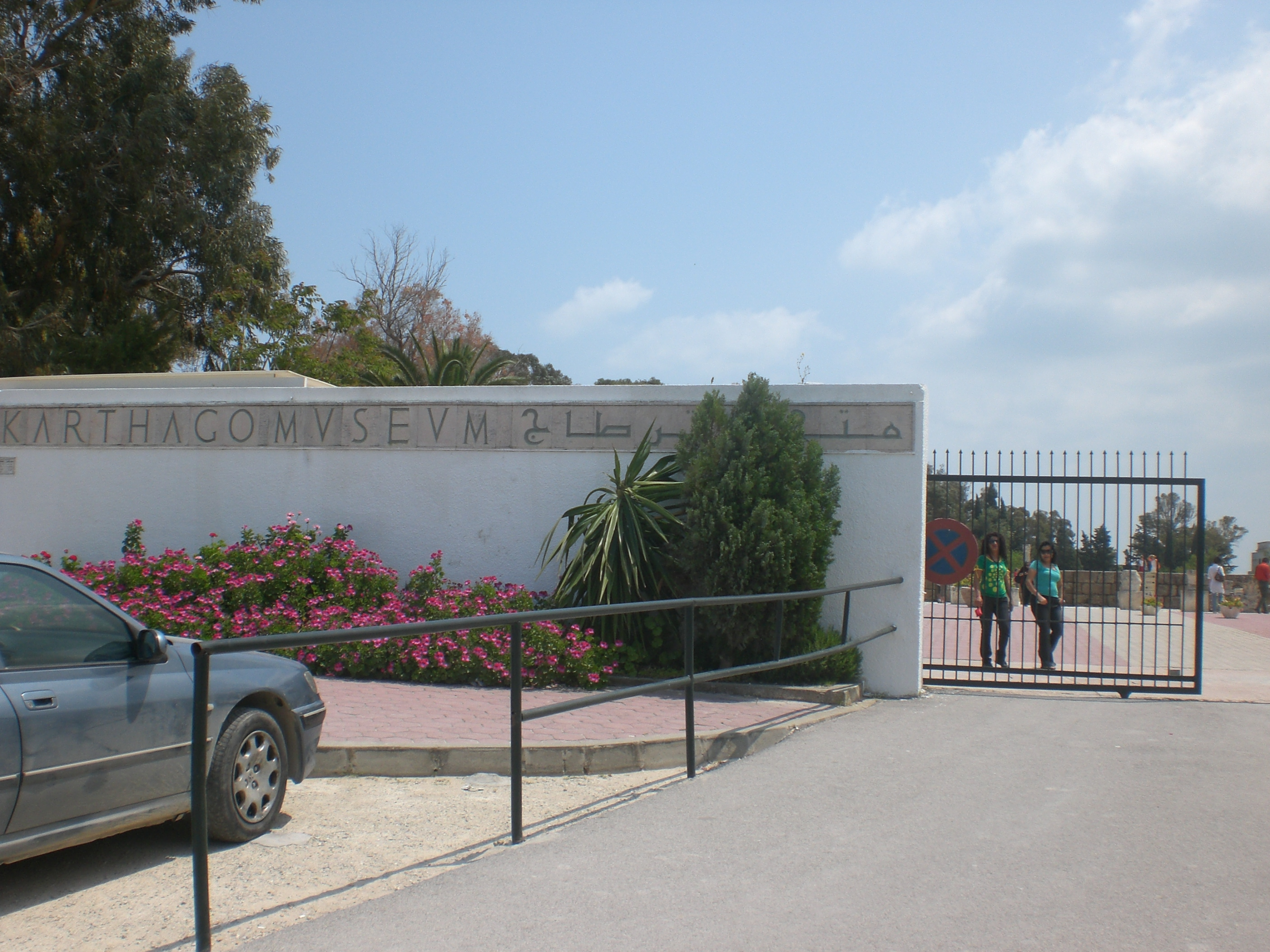 The Carthage Museum of Tunisia